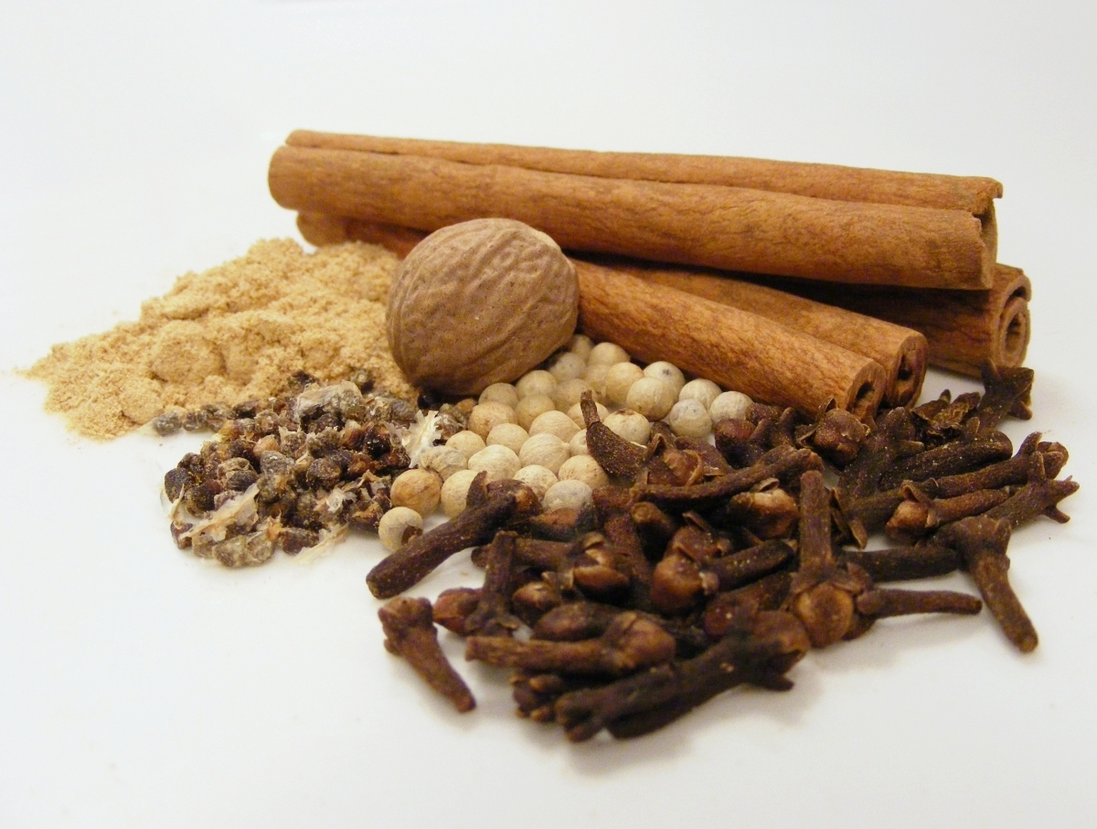 Spices used for Speculaas (a Dutch cookie). Speculaas blend (Speculaaskruiden) 15 gr cinnamon (kaneel), 2 gr cloves (kruidnagel), 2 gr nutmeg (nootmuskaat), 1 gr white peppercorn (witte peper), 1 gr ginger powder (gemberpoeder), ½ gr cardamom seeds (from the green pods) (kardemomzaadjes). Grind in a coffee grinder or mortar.